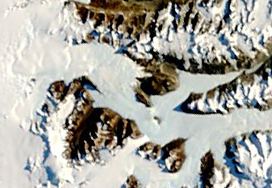 An image of the Taylor Glacier taken by the Terra satellite on February 19, 2007.